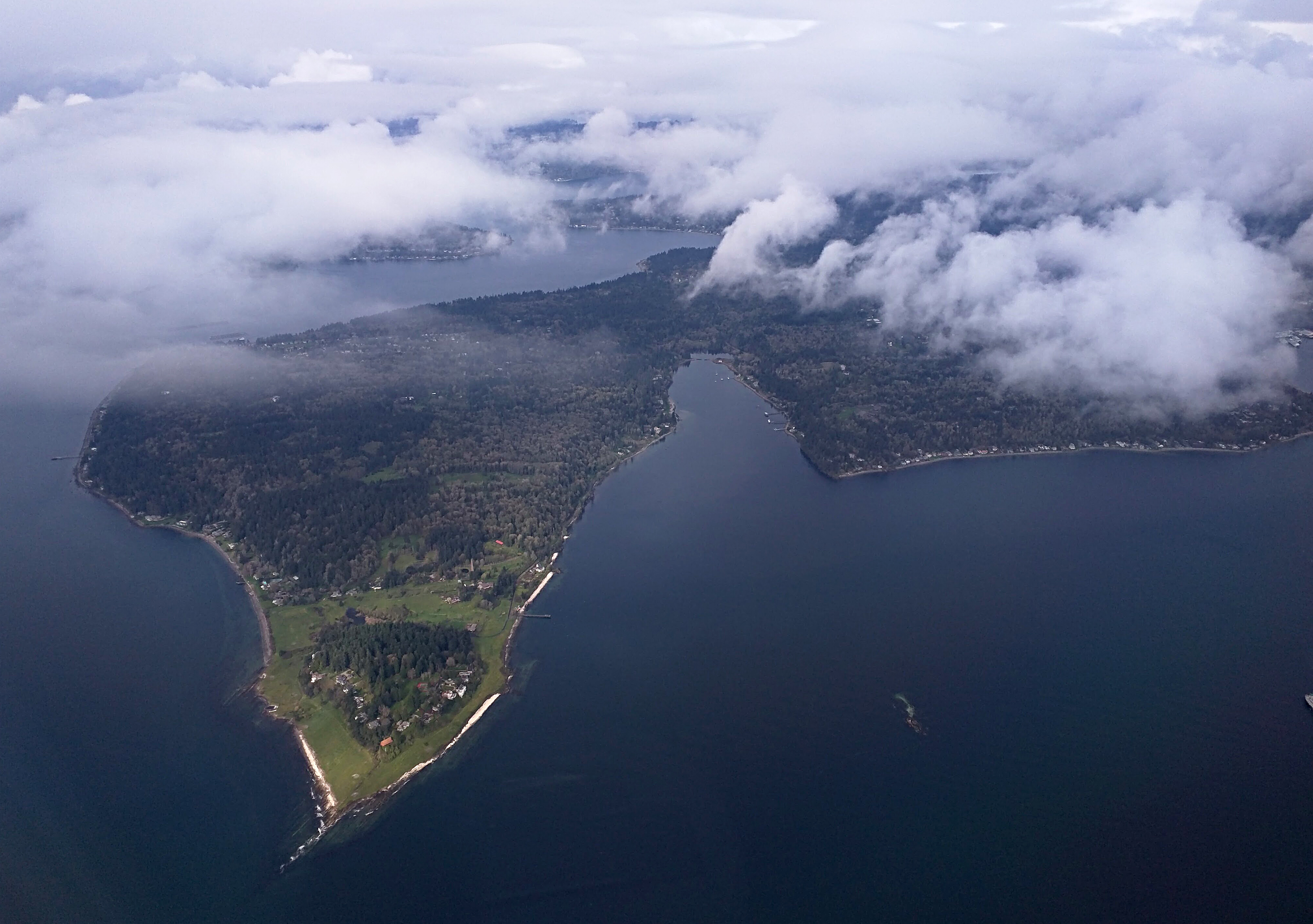 The Country Club of Seattle at the southeast point of Bainbridge Island, Washington